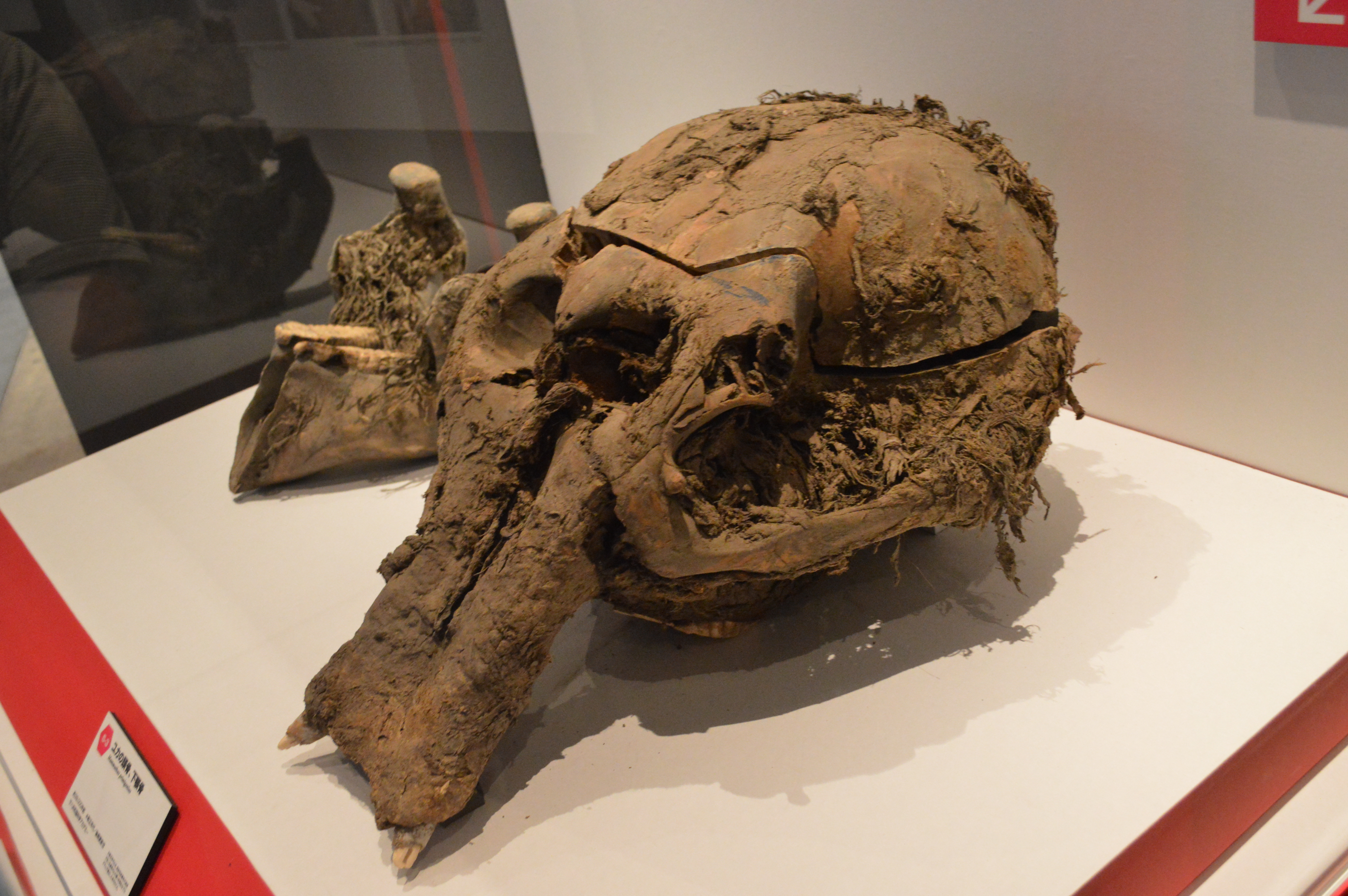 Yuka's skull and lower jaw as shown at Frozon Woolly Mammoth Yuka Exhibit in Yokohama, Kanagawa, Japan in Summer 2013. The cut on the skull was created when Yuka's brain was extracted in 2012. Yuka's brain was not sent to Japan for the exhibition; it remains in Russia for further studies by Russian scientists.